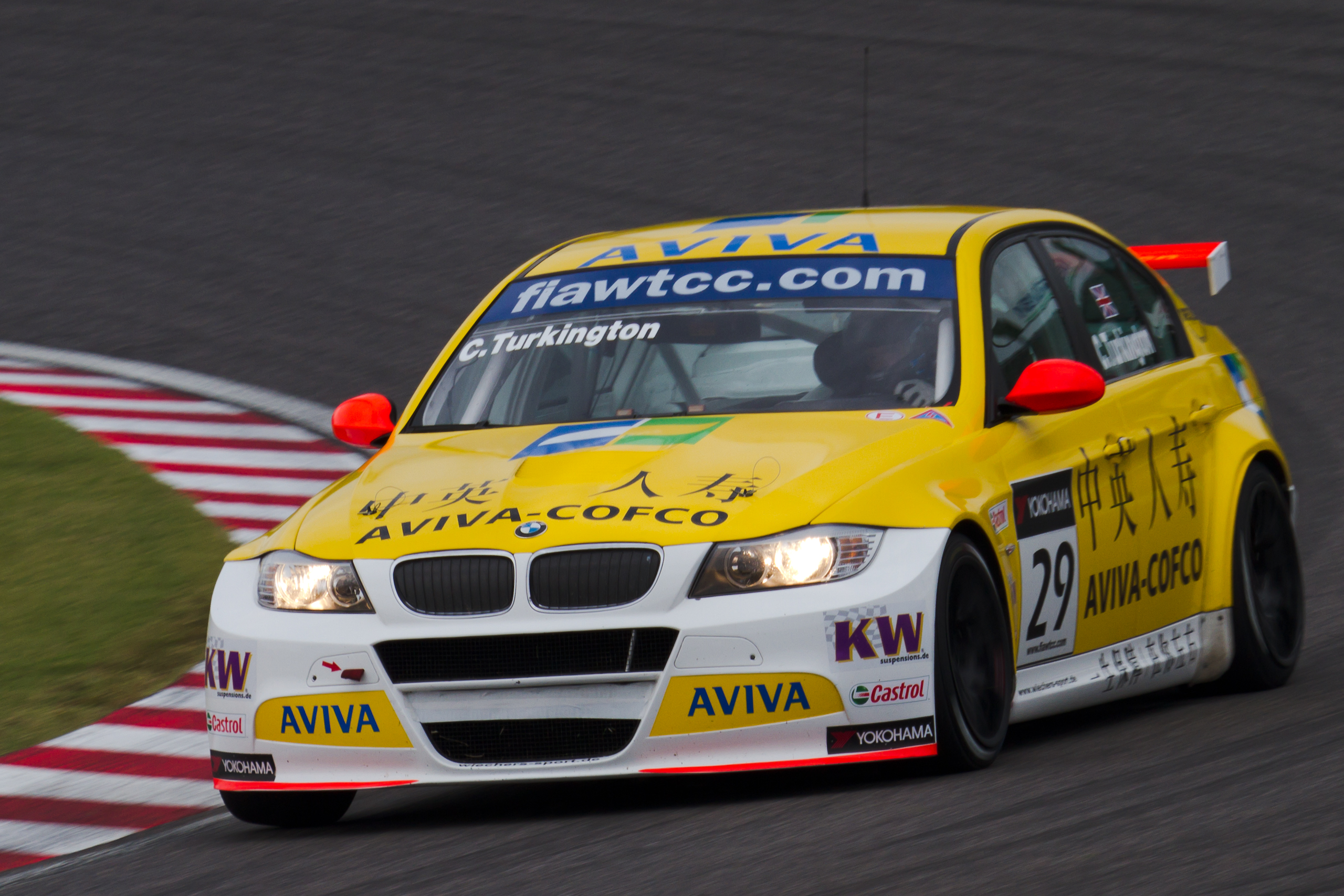 World Touring Car Championship 2011 Race of Japan: Colin Turkington (Wiechers-Sport) during the qualify session on Saturday.